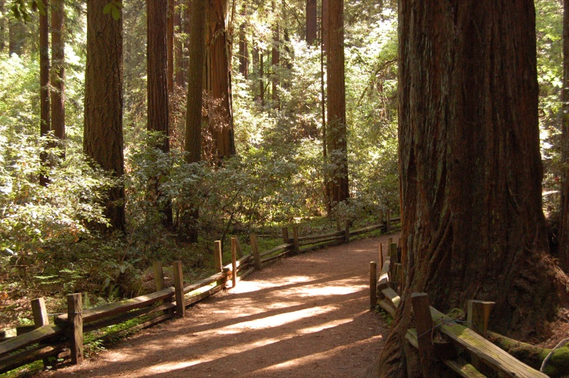 Redwood Forest Trail